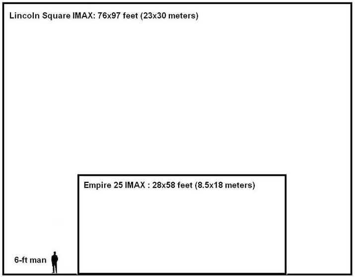 Comparison of difference between digital and film screen size.